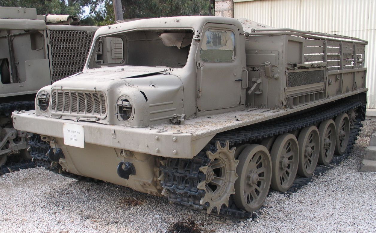 Description: ATS-59 medium artillery tractor in Batey ha-Osef Museum, Tel Aviv, Israel. 2005. Source: Photo by me, User:Bukvoed.